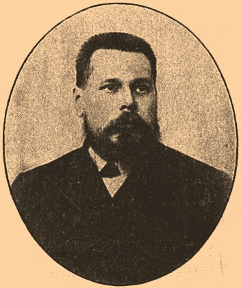 Illustration from Brockhaus and Efron Encyclopedic Dictionary (1890—1907)